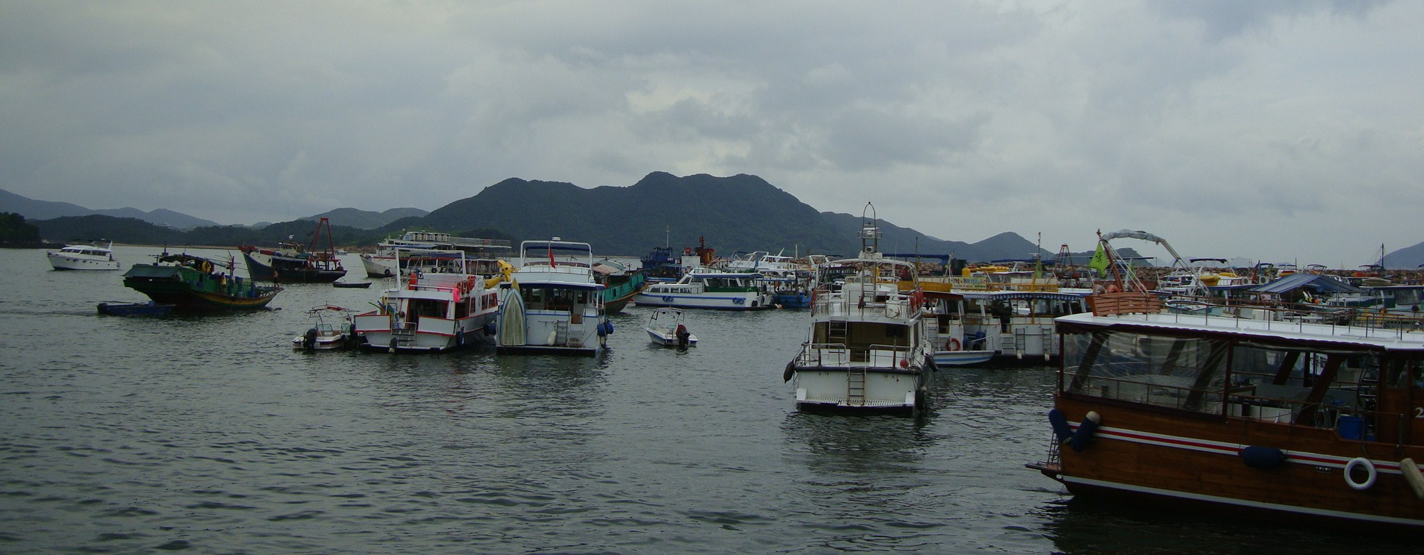 Sai Kung Boats